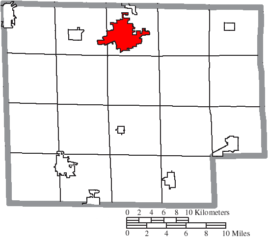 Map of the municipal and township boundaries of Huron County, Ohio, United States, as of the 2000 census, with the location of the city of Norwalk highlighted. Township borders are shown only in unincorporated areas in order to differentiate incorporated and unincorporated areas more clearly.